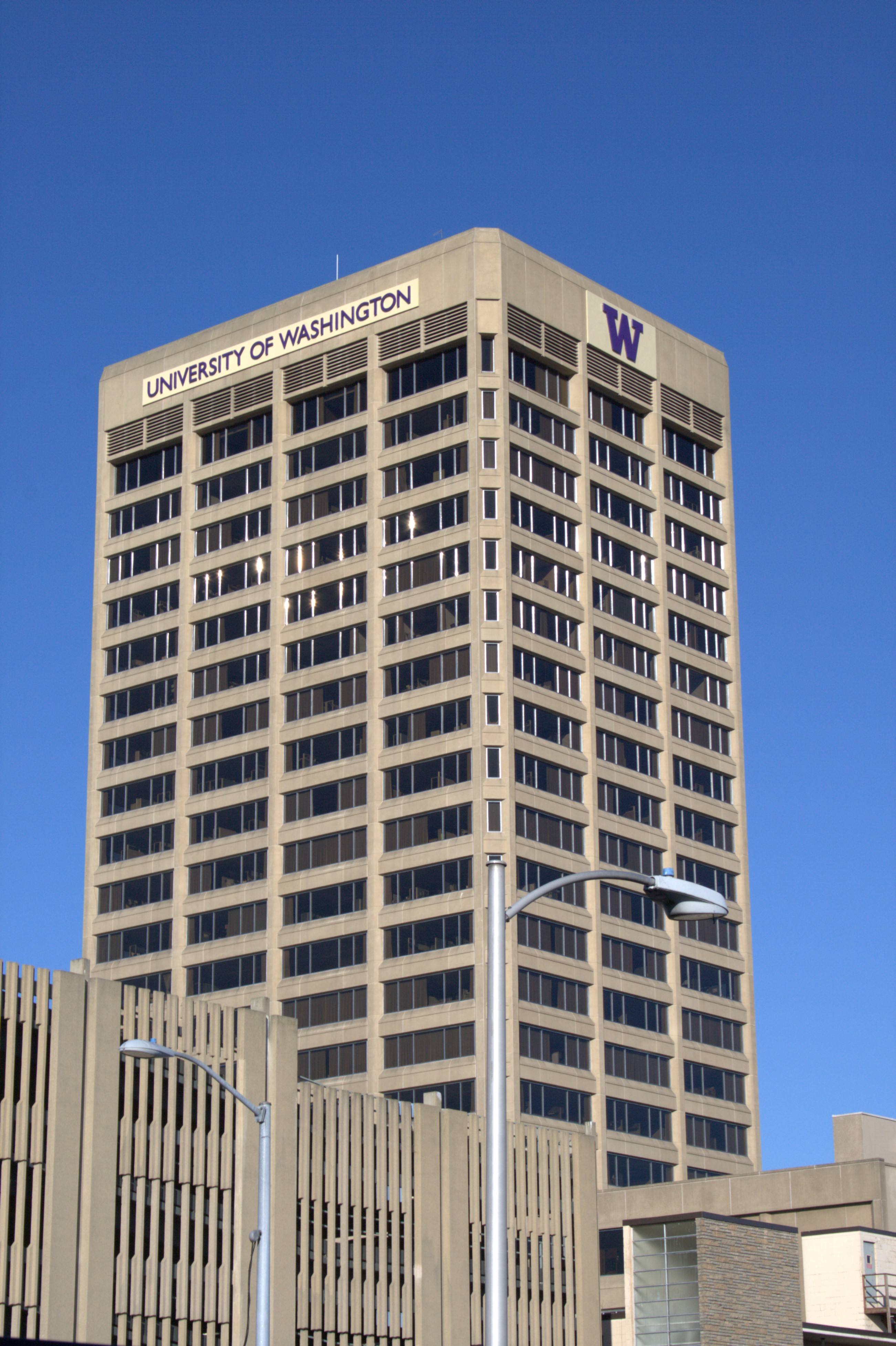 UW Tower